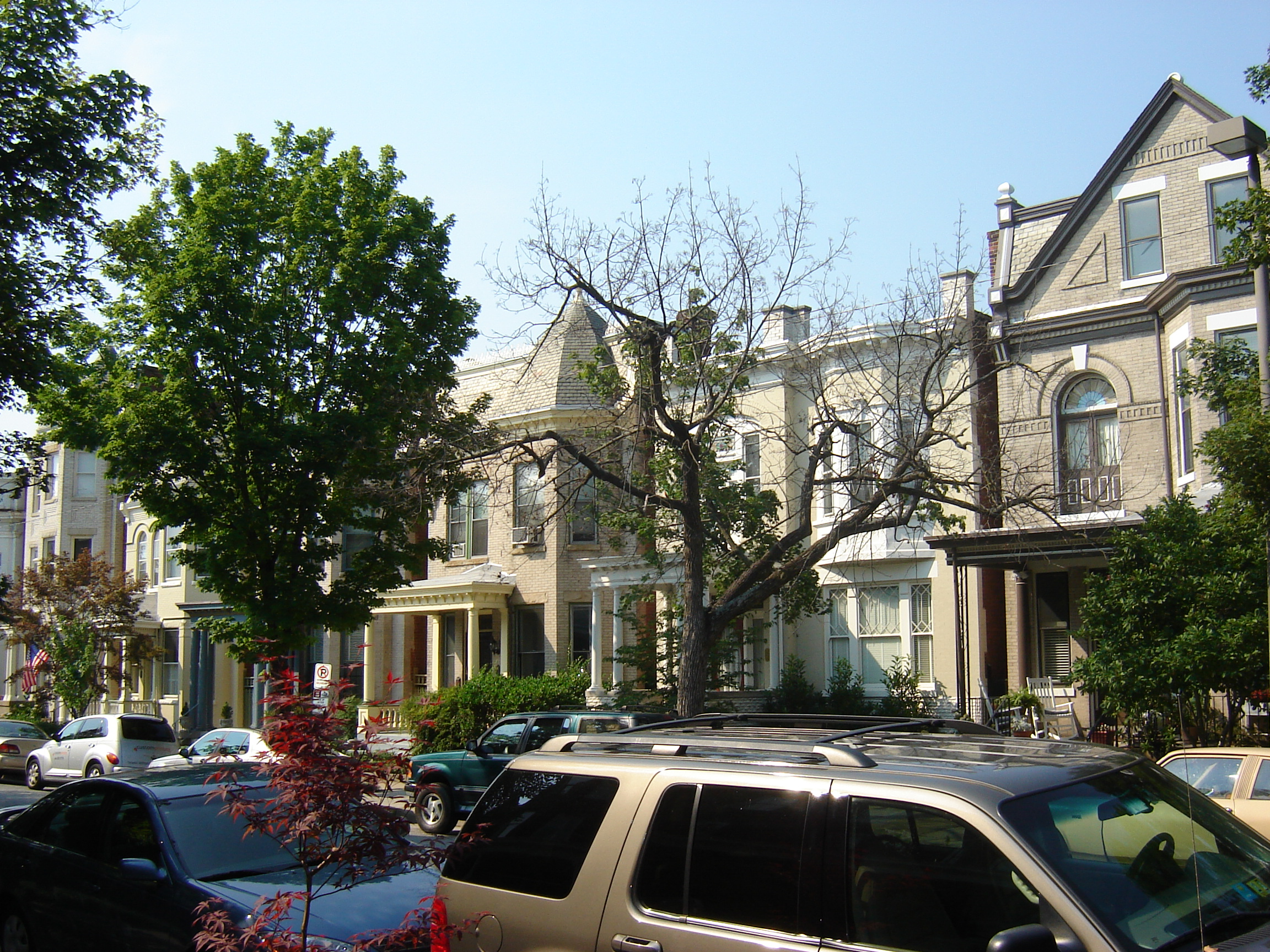 This picture is taken by me, in the summer of 2006.